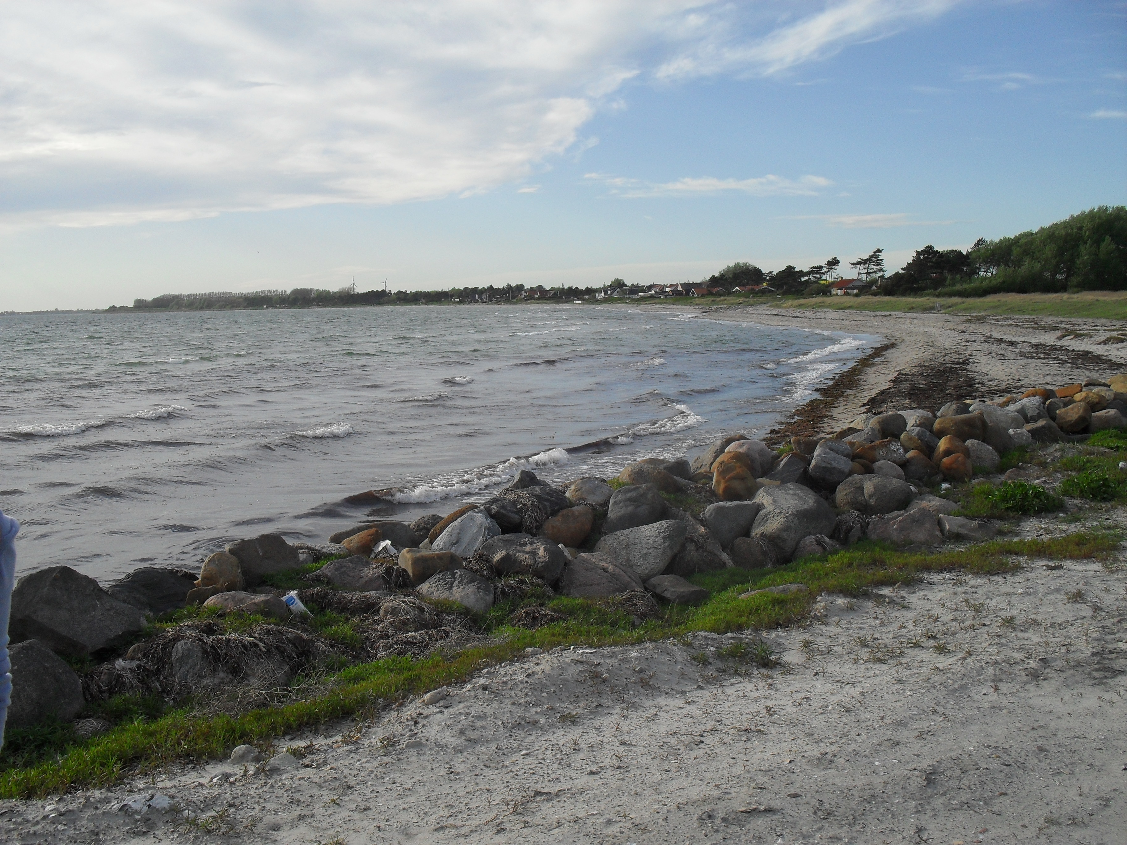 Mullerup beach on the west coast of Sealand, Denmark